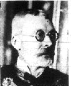 Gyula Károlyi Hungarian prime-minister.